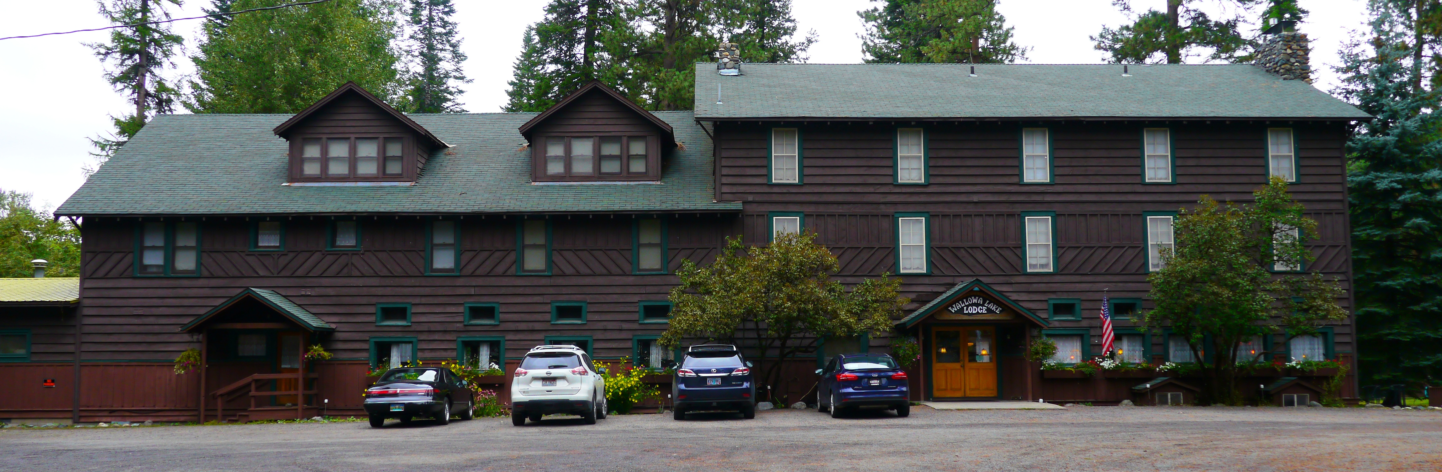 Wallowa Lake State Park is a state park located in northeast Oregon in the United States. It is at the southern shore of Wallowa Lake, near the city of Joseph in Wallowa County. The town of Wallowa Lake is situated next to the park. Wallowa Lake State Park has a variety of activities, including hiking wilderness trails, horseback riding, bumper boat, canoeing, miniature golf, and a tramway to the top of one of the mountains (a rise of 3,700 feet). Wildlife is abundant in the area.